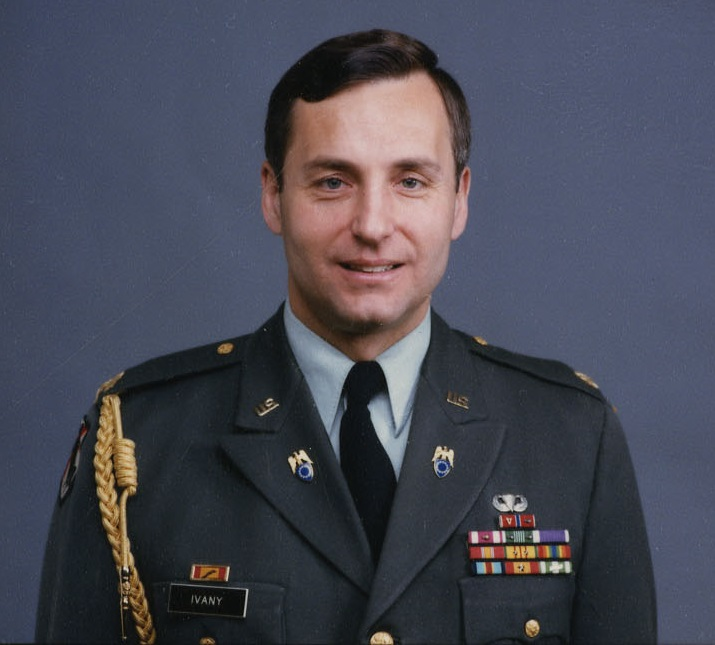 Robert Ivany , miltary aide to President Reagan